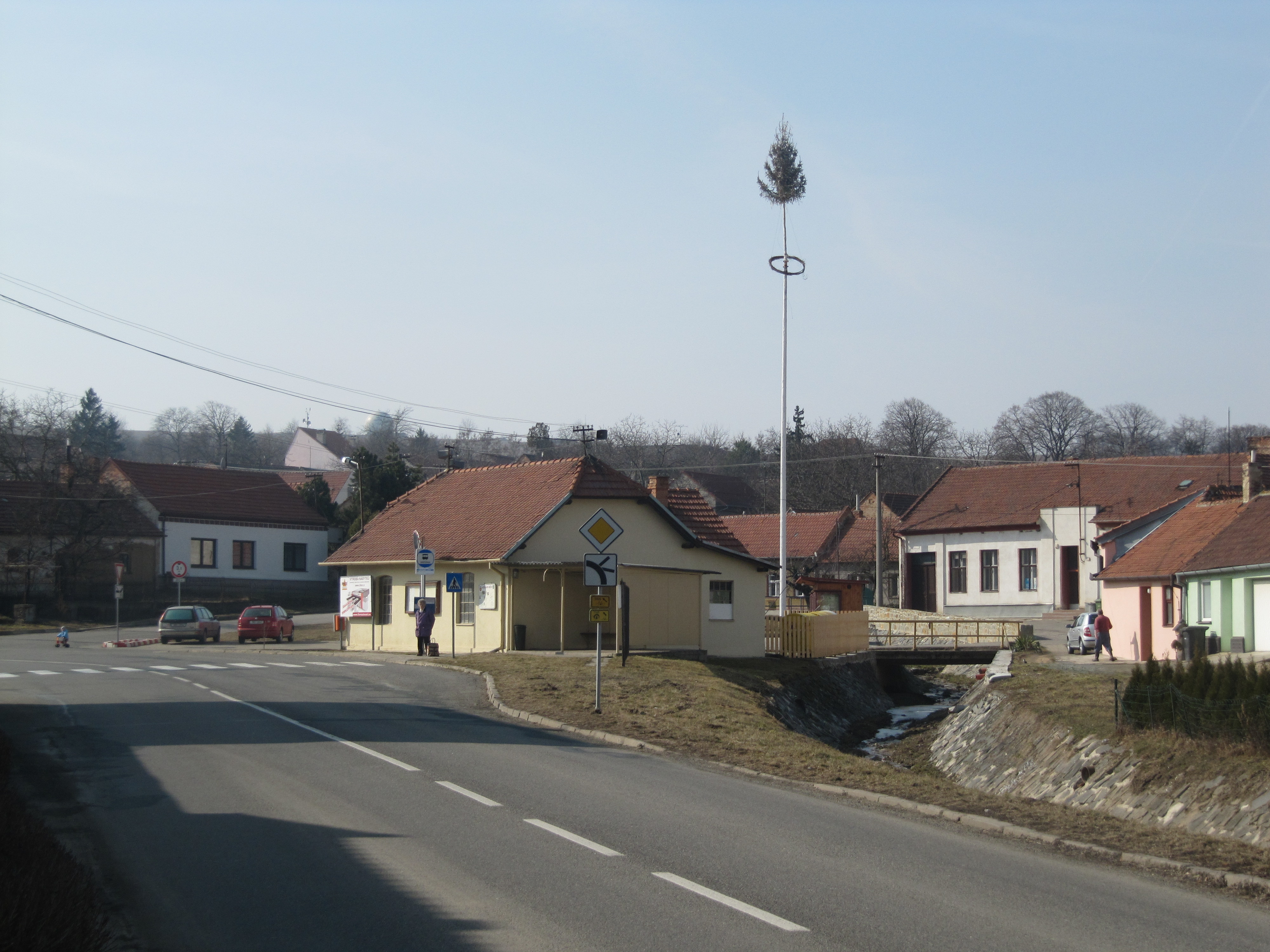 Hostěrádky-Rešov in Vyškov District, Czech Republic. Common.